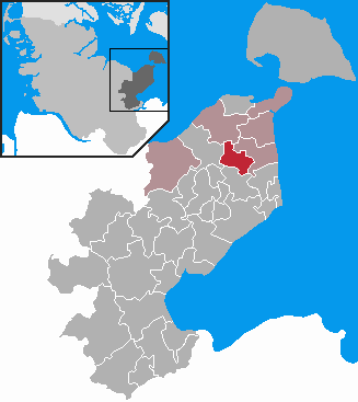 This map shows the area of the Gemeinde (municipality) Göhl in the Kreis (district) Ostholstein, Schleswig-Holstein, Germany.